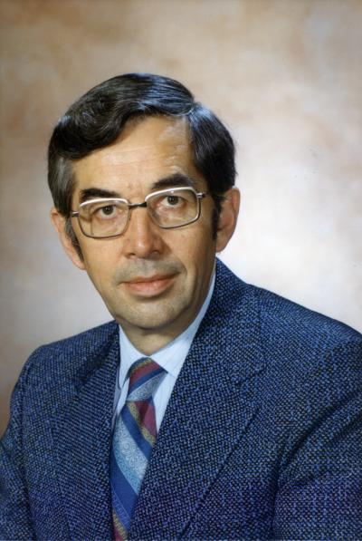 Representative H. A. "Barney" Goltz